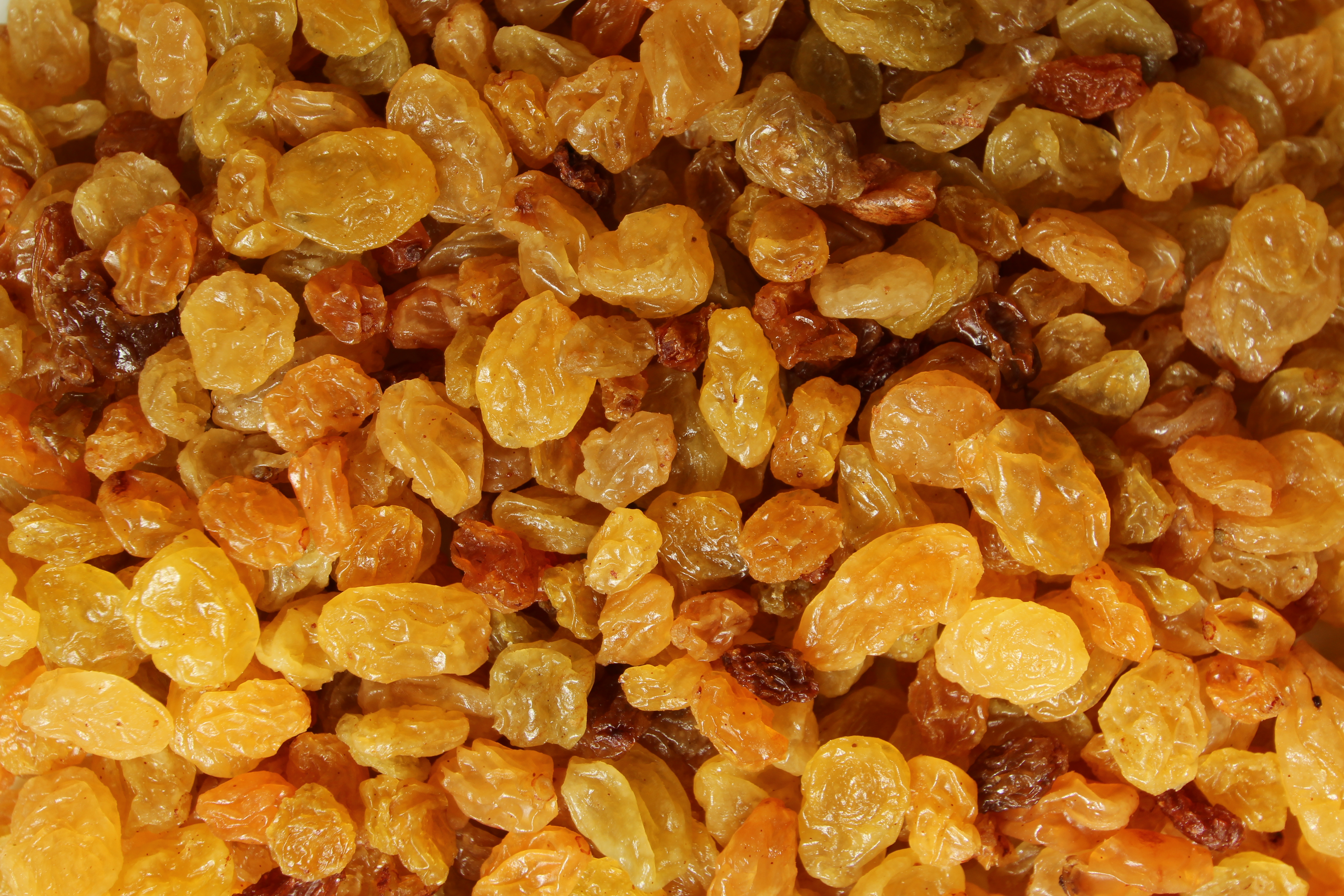 Raisin (Sultana) of Sun brand.